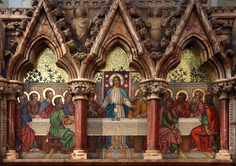 Reredos by Antonio Salviati of Venice to a Cartoon by John Clayton of Clayton & Bell. Installed 1868. Almost identical to the reredos in Westminster Abbey.